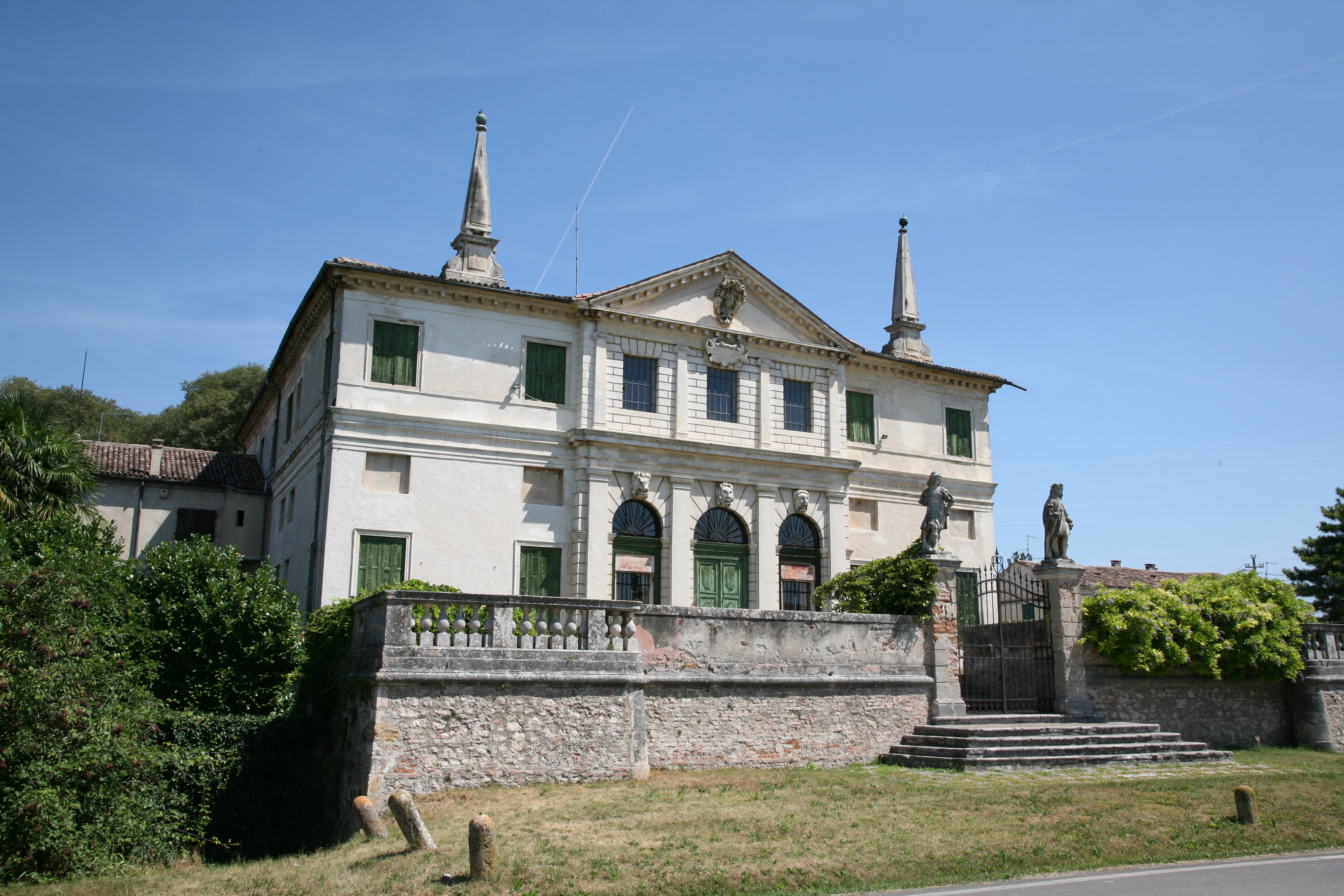 Villa Repeta is an italian villa. The original villa by Andrea Palladio was destroyed by fire.